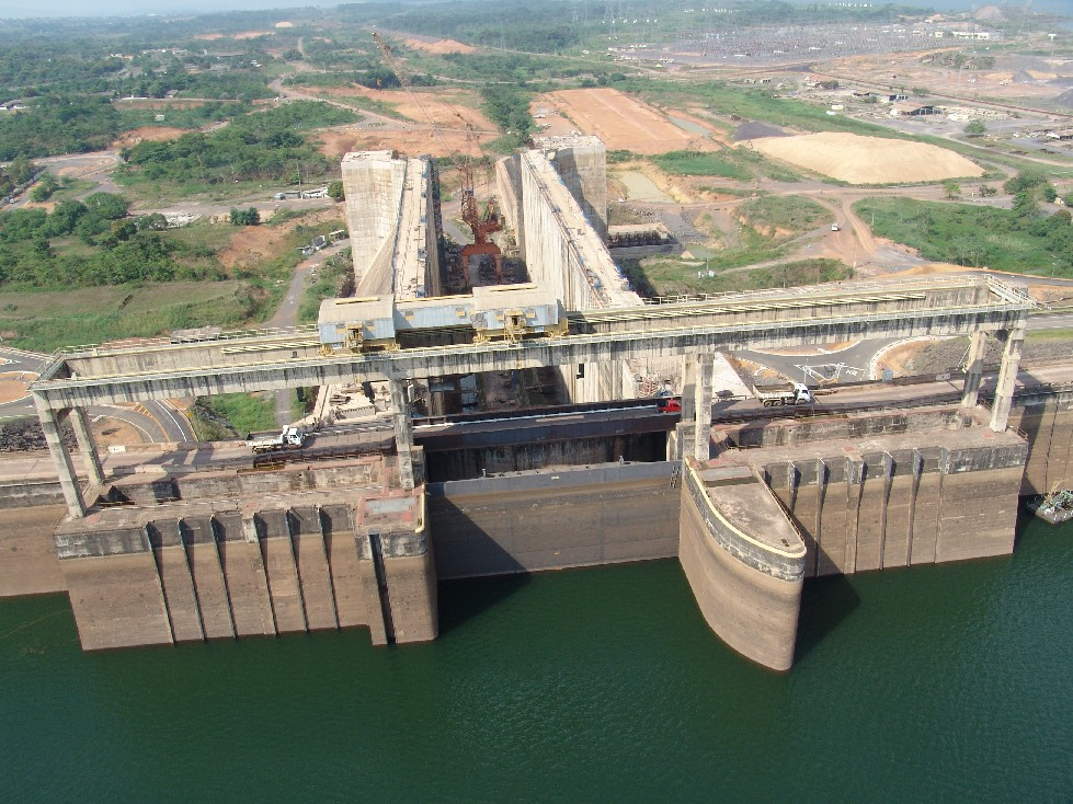 Tucurui lock 1 in construction